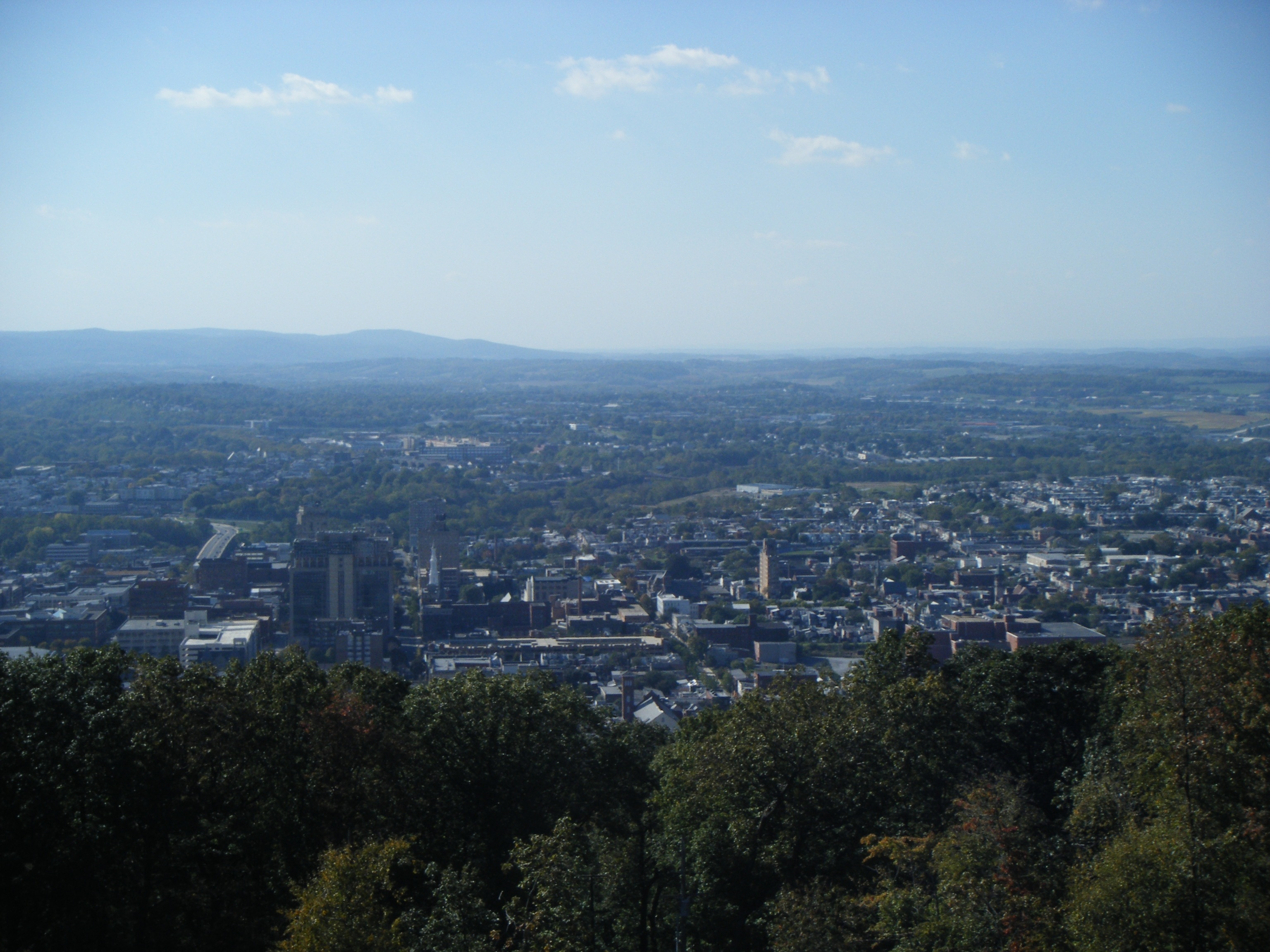 A view of the Reading, Pennsylvania area from the Pagoda atop Mount Penn.